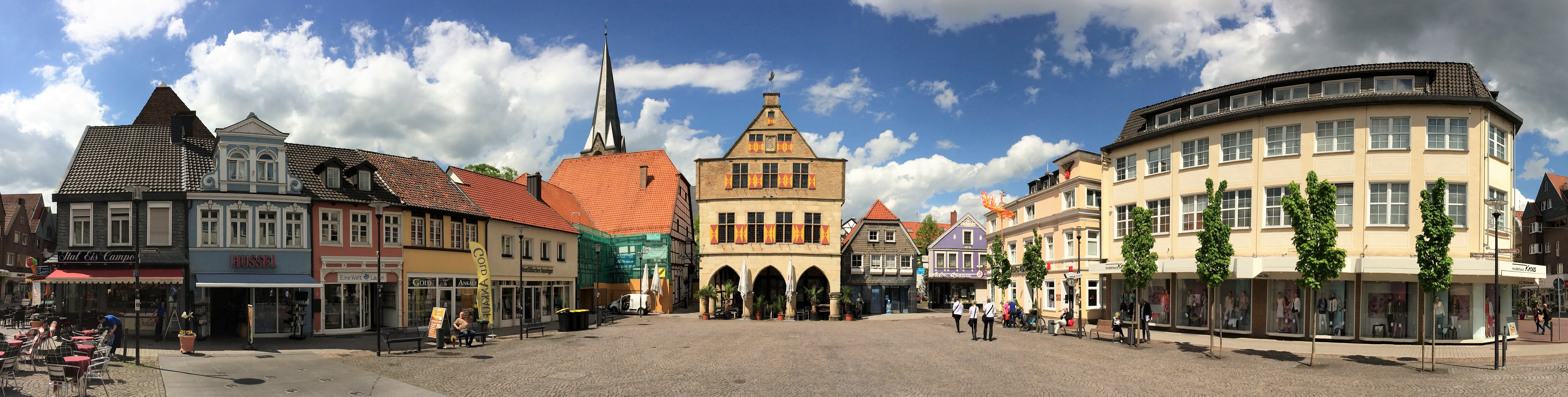 The Market Square with the old town hall in Werne (Unna District, North Rhine-Westphalia, Germany).